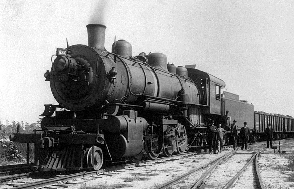 Virginian Railway class MB 2-8-2 #430 in 1909. This class were the first wide-firebox 2-8-2s and the design ancestors of most subsequent Mikado type locomotives. This image was published in Railway Age in 1909 as well as other contemporary works.